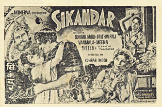 Movie poster of Sikandar, 1941, starring Sohrab Modi and Prithviraj Kapoor.